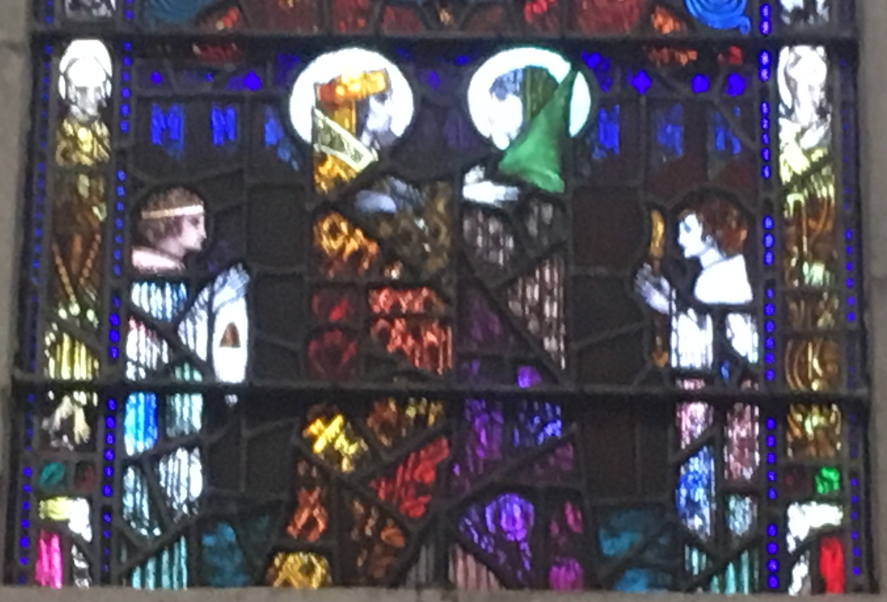 St. Declan, by Harry Clarke (1916)